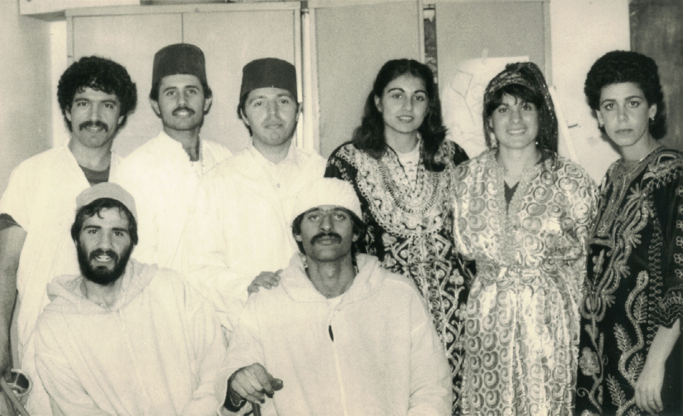 A Communities Evening held by Leadership Course, which was instructed by Acha[1] during Fall 1982 to Summer 1983 at the evening school on Mozes street, Tel Aviv. The Deaf students were traditionally dressed up as Jewish Moroccans, with their own costumes.